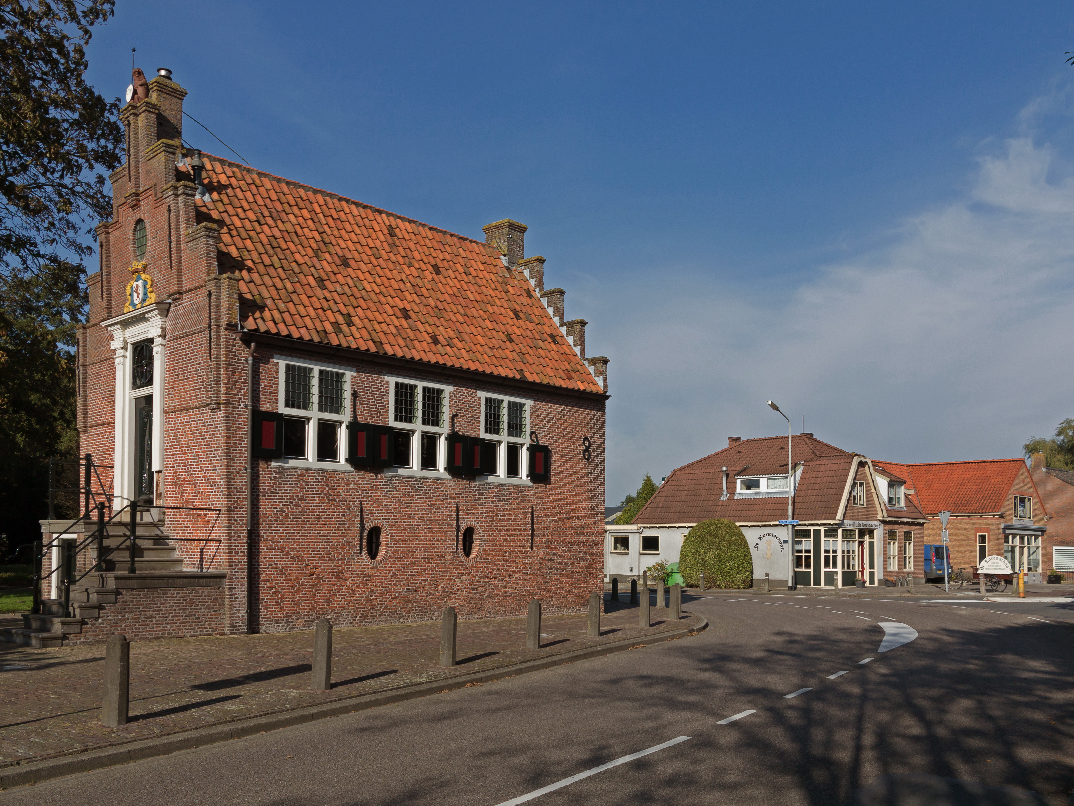 Spanbroek, townhall